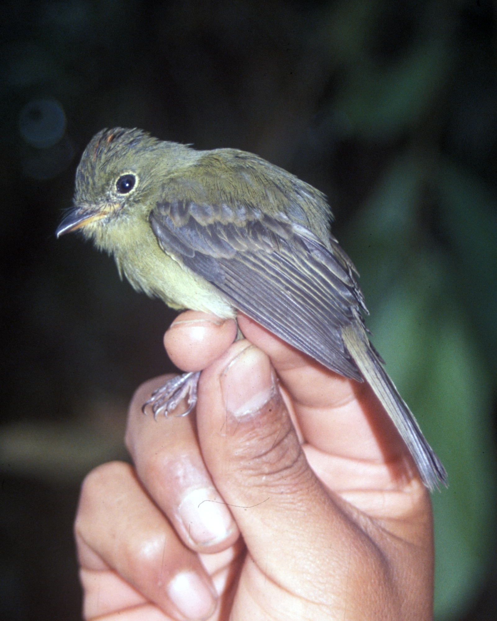 Orange-crested Flycatcher (Myiophobus phoenicomitra) in Ecuador